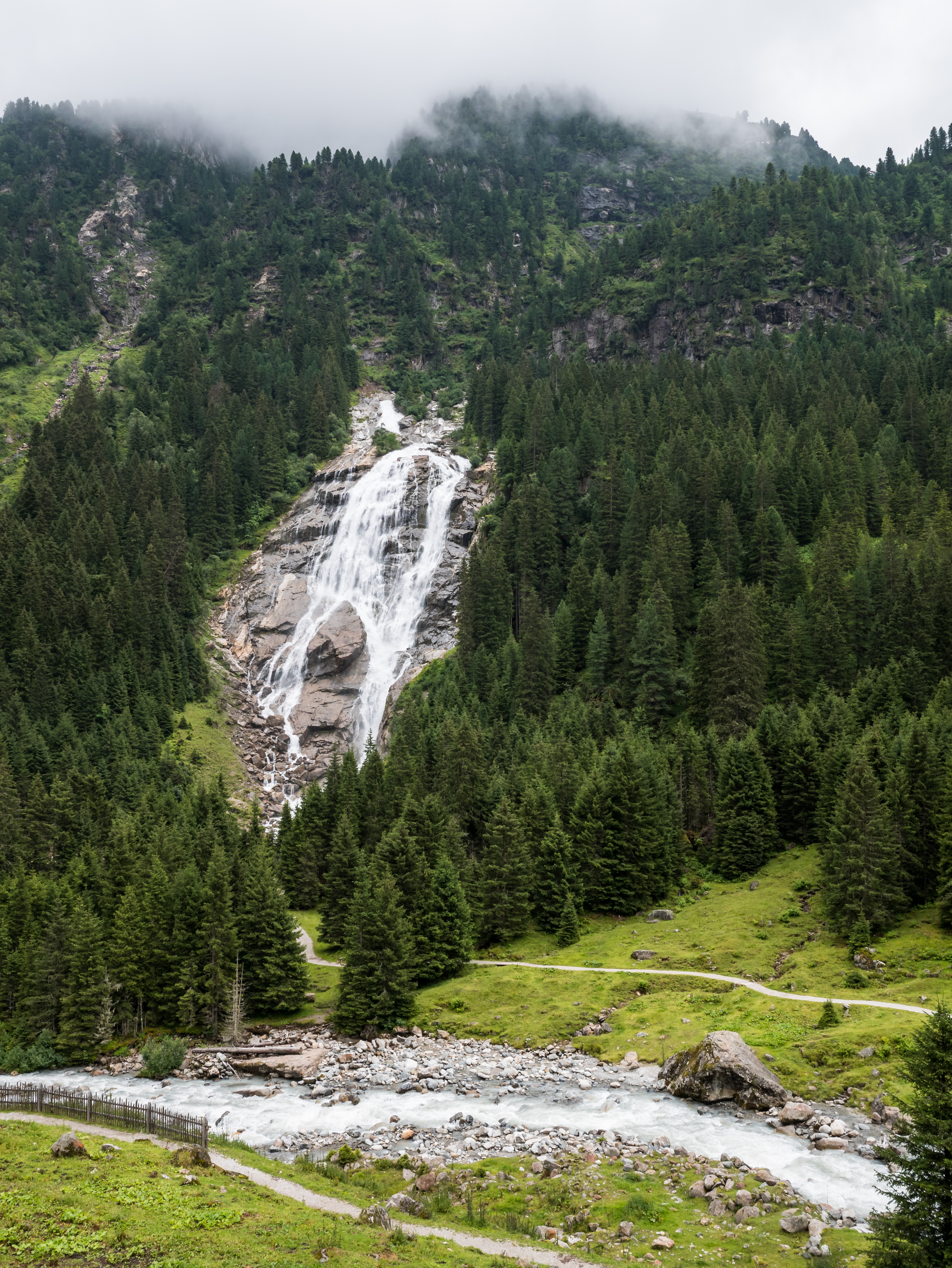 Grawa waterfall in the Stubai Valley. Innsbruck-Land, Tyrol, Austria